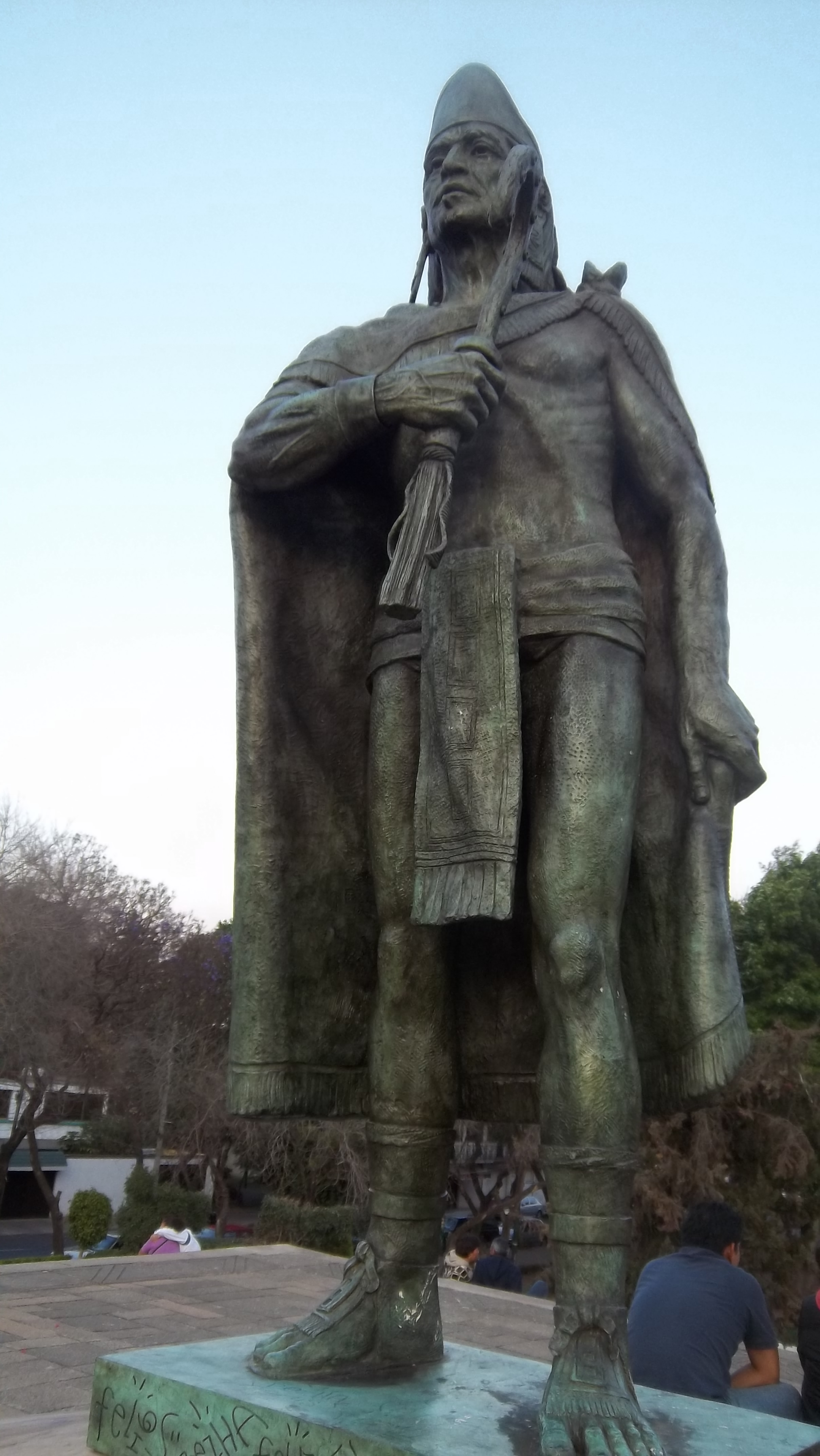 Sculpture of Tezozomoc in Plaza Cívica Fernando Montes de Oca, Azcapotzalco, Mexico City.